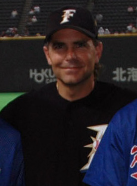 US Navy (USN) Sailors who are members of the Kitty Hawk-Battle Cats, the baseball team from the USN Aircraft Carrier USS KITTY HAWK (CV 63), pose for a group photograph with two players from the Sapporo Nippon "Fighters" baseball team in Sapporo, Japan. While in port, Sailors have a chance to sightsee, shop, enjoy recreational activities and participate in community relation projects with their host nationals. The USS KITTY HAWK demonstrates power projection and sea control as the USN only permanently, forward-deployed aircraft carrier.